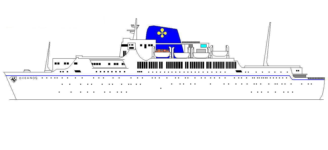 MTS Oceanos seen from side IMO number: 5170991